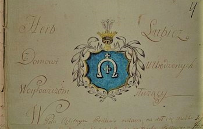 Wywód rodowitości szlacheckiej - Wołyń, Wojtowiczowie herbu Lubicz